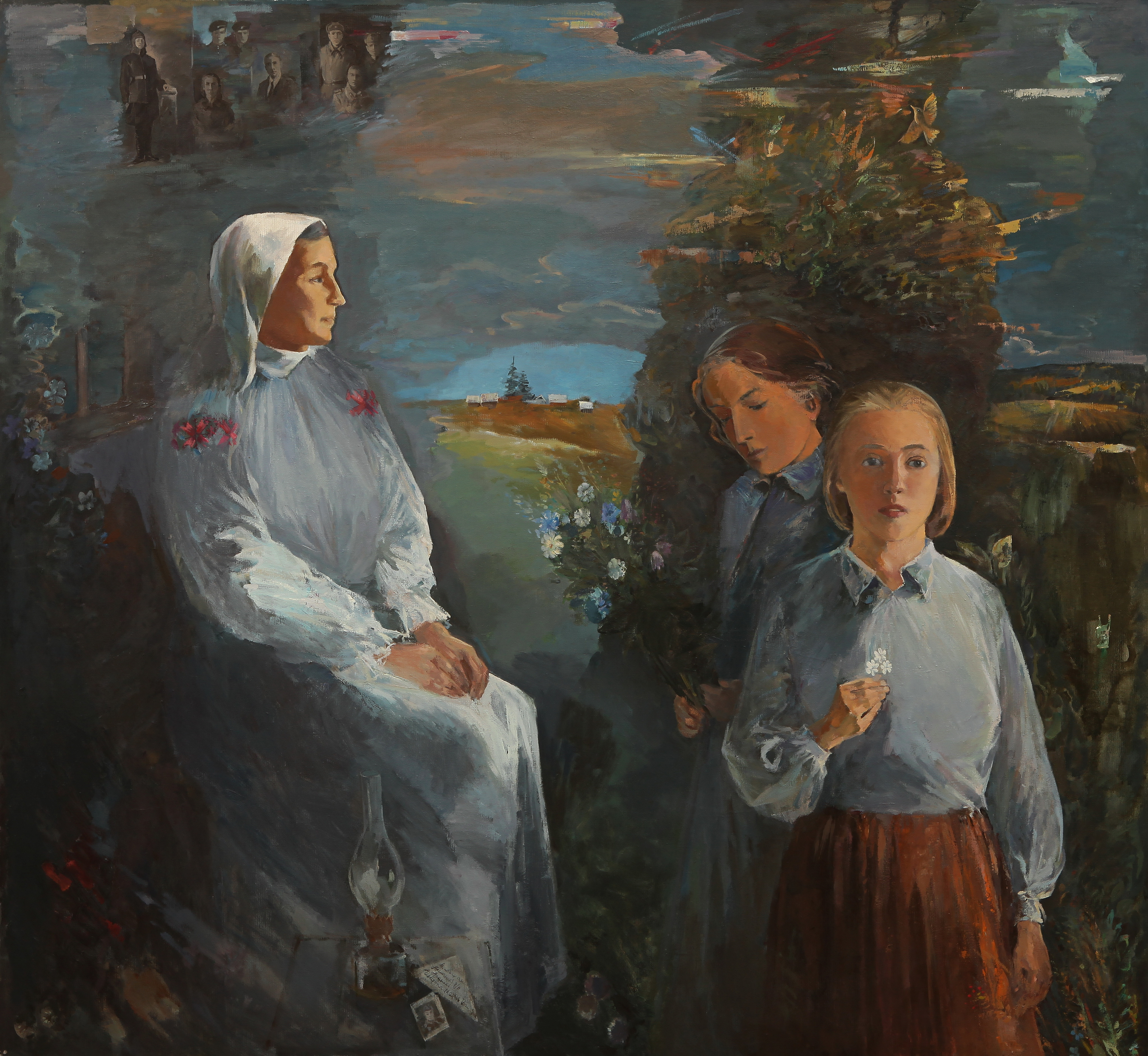 Sharipa Piotr Piatrovich (1942-2013), Belarussian painter. "Farewell with the native village". Oil on canvas, 140 x 154 cm.